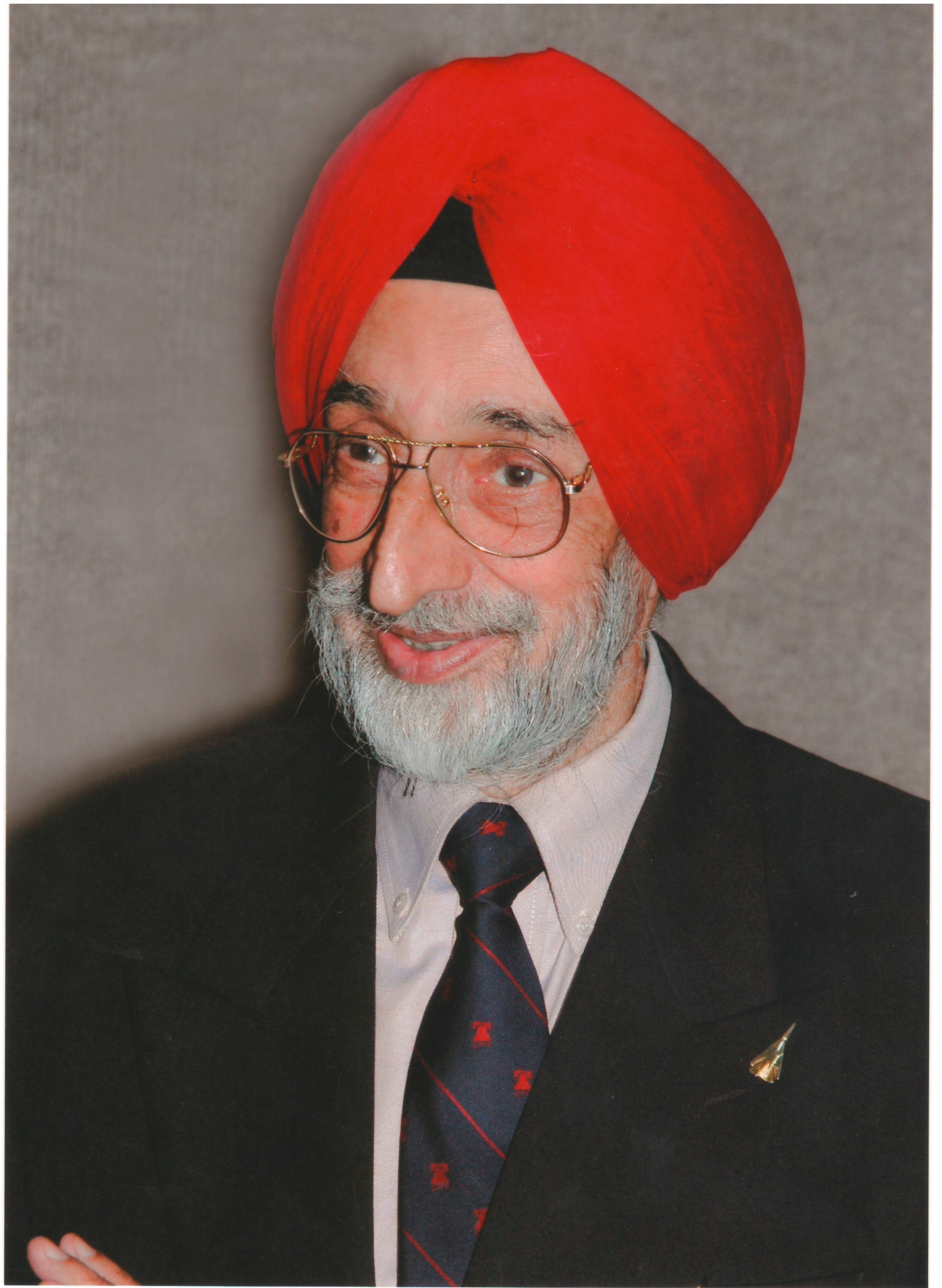 Air Commodore Jasjit Singh was awarded Padma Bhushan in 2006